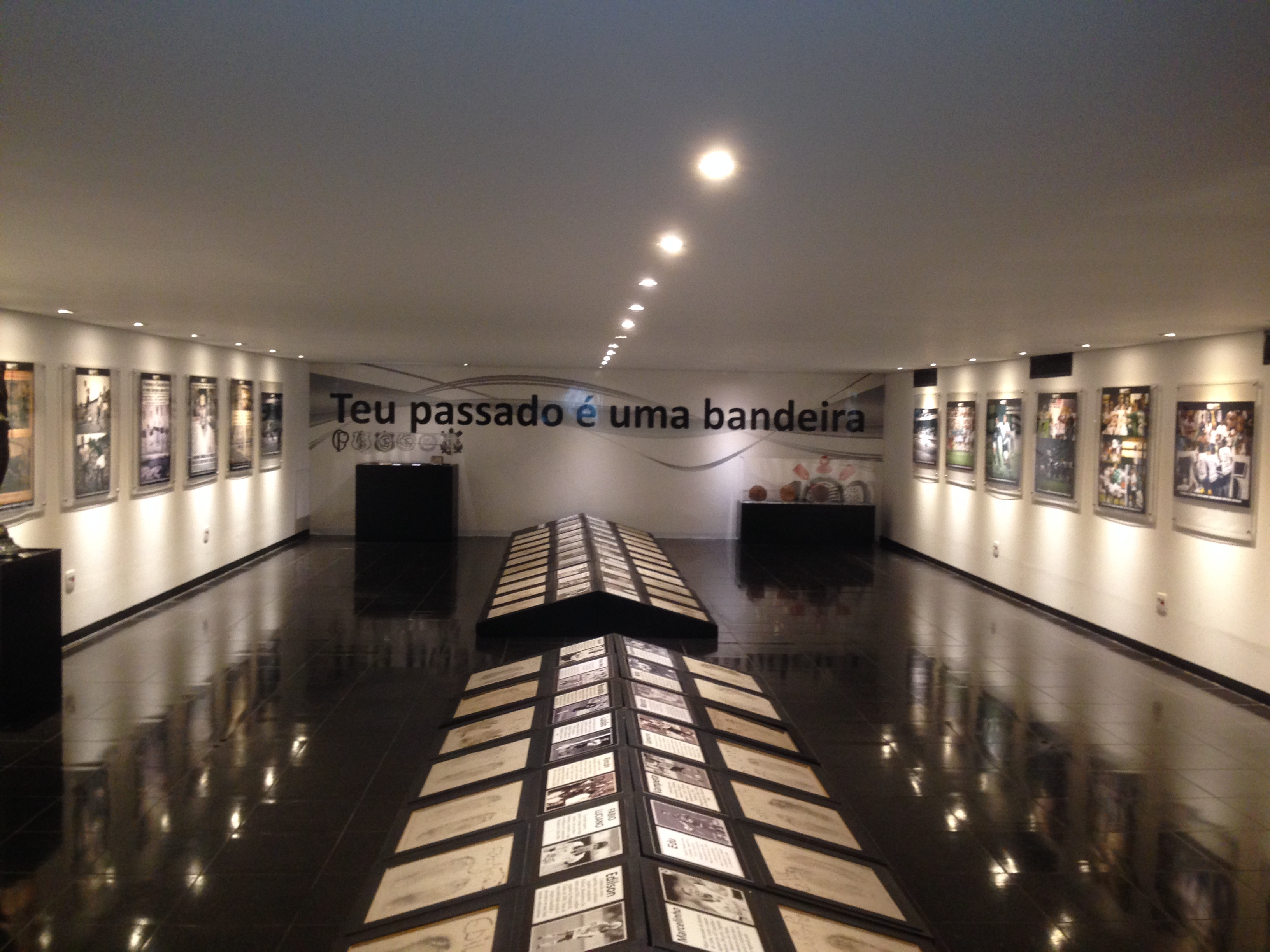 Calçada da Fama do Memorial, com a presença da pegada de jogadores icônicos que ja passaram pelo time